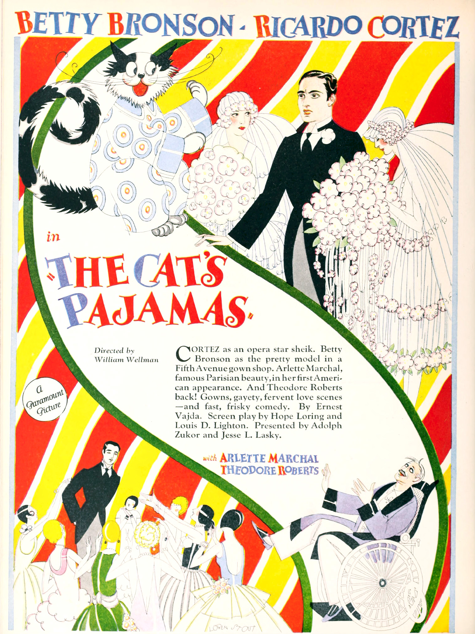 Ad for the 1926 Paramount film The Cat's Pajamas. Paramount did not mark this ad or any others in this journal with copyright marks. Motion Picture news copyrights did not apply to ads placed in the magazine--to editorial content only. US Copyright Office page 3-magazines are collective works (PDF) "A notice for the collective work will not serve as the notice for advertisements inserted on behalf of persons other than the copyright owner of the collective work. These advertisements should each bear a separate notice in the name of the copyright owner of the advertisement."